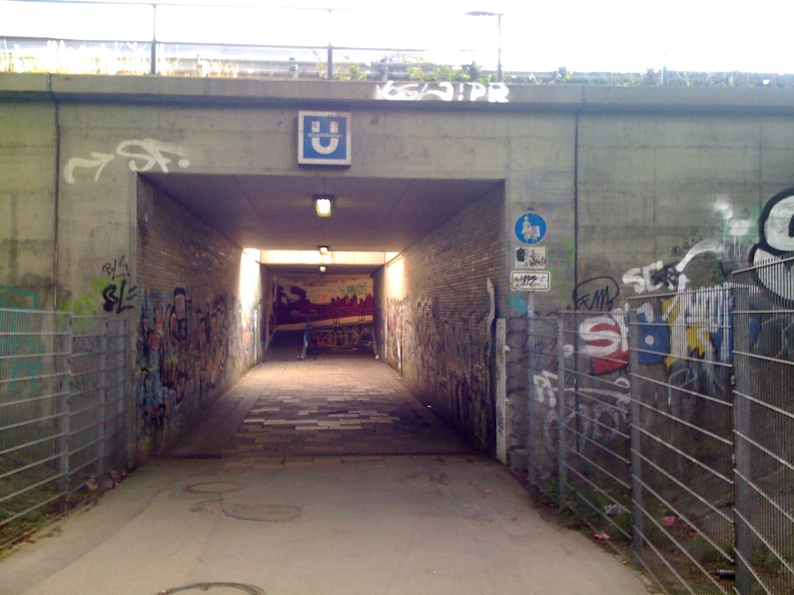 Underground station Eichbaum in Mülheim (Ruhr), north entrance from Blücherstraße